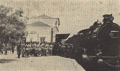 Military train of the Regimento de Sapadores dos Caminhos de Ferro (Railway Sappers Regiment), at the Setúbal railway station, in Portugal, on the 26th of May 1939. This image was published on the Gazeta dos Caminhos de Ferro magazine no. 1235, of the 1st June 1939, and scanned by the Hemeroteca Municipal de Lisboa.